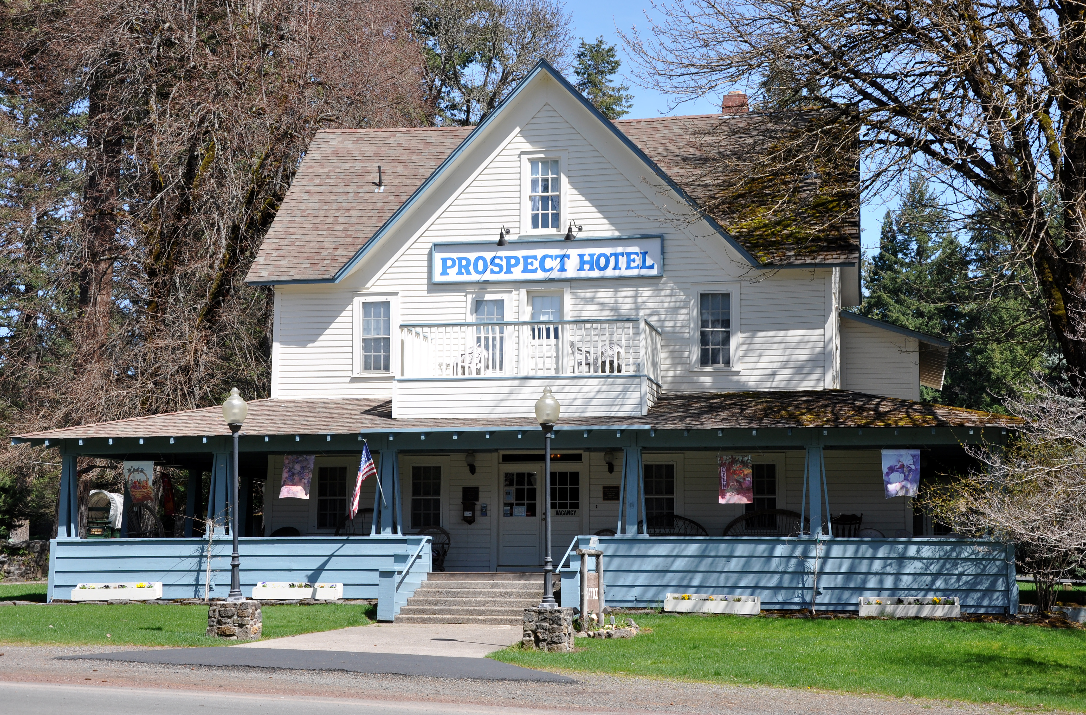 Prospect Hotel, on the National Register of Historic Places in Prospect in the U.S. state of Oregon